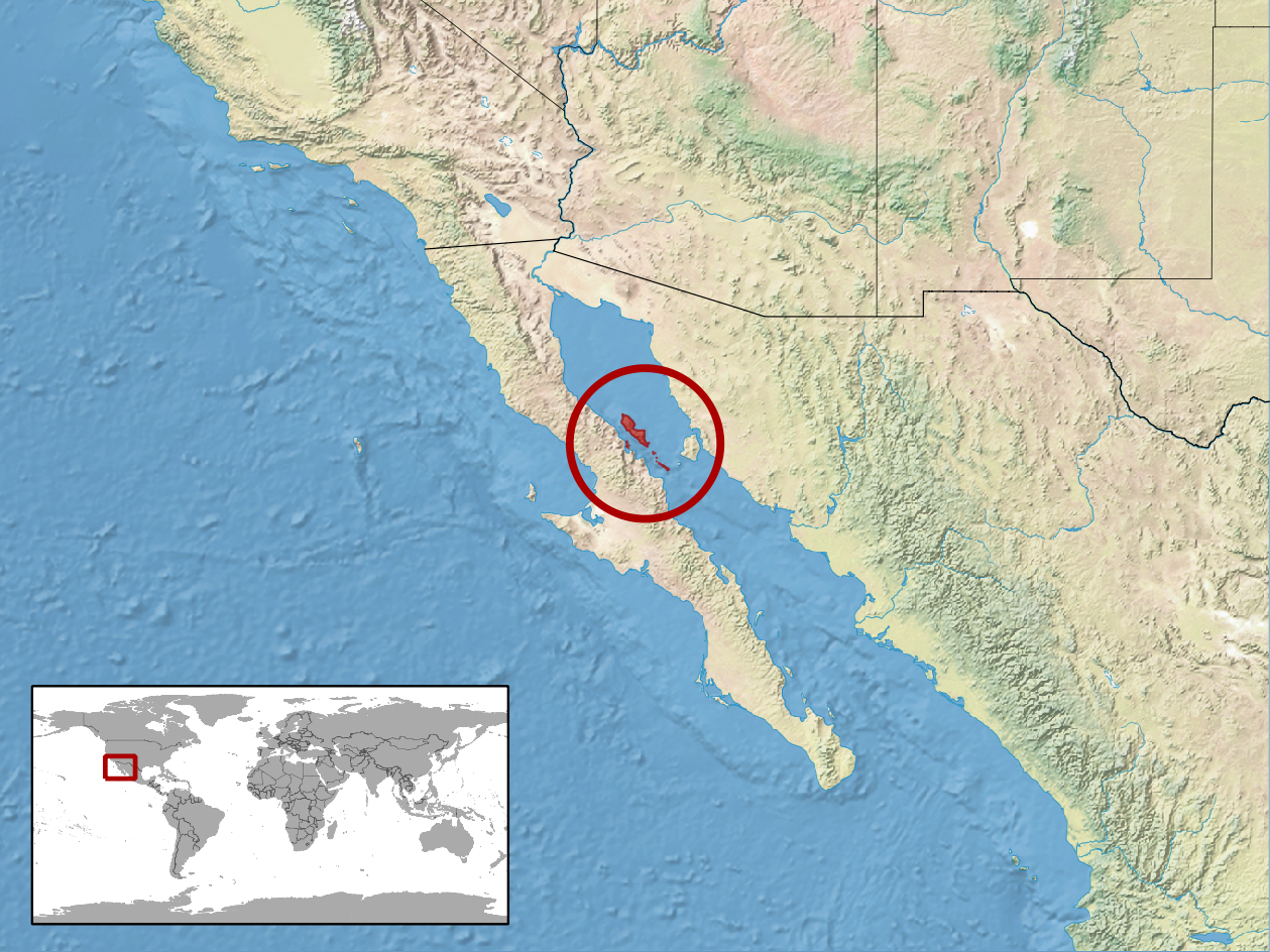 geographic distribution of Sauromalus hispidus (Native: Mexico (Baja California))